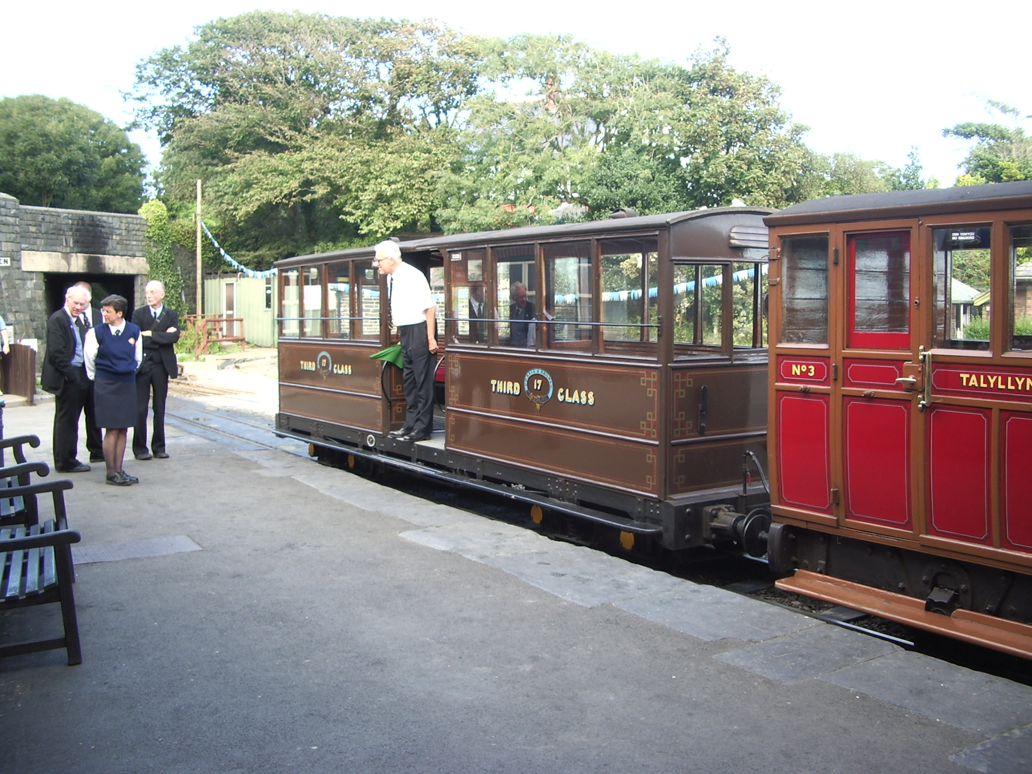 Ex-Corris Railway coach no 8 (now Talyllyn Railway no 17) at Tywyn Wharf station in August 2005